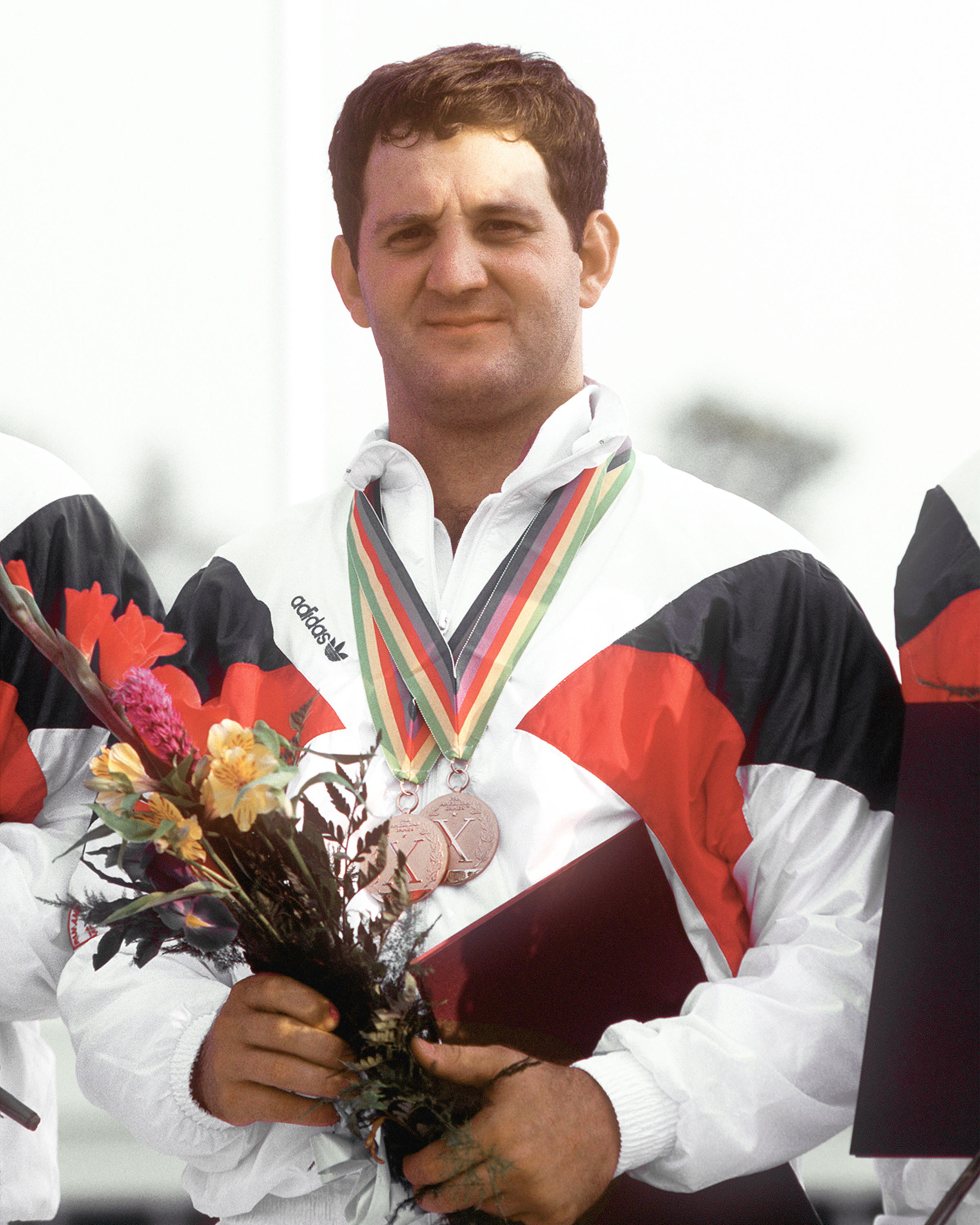 Glenn Dubis stands on the winner's platform between two other members of the U.S. men's small bore rifle team after he was awarded gold medals in both the individual and team categories at the 10th Annual Pan American Games.